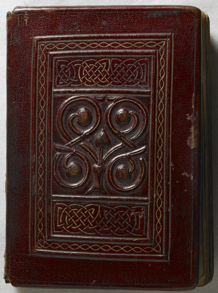 Style: Abstract|Circle|Leaf; Caption: Upper cover; Colour: Brown|Red; Edge: Plain